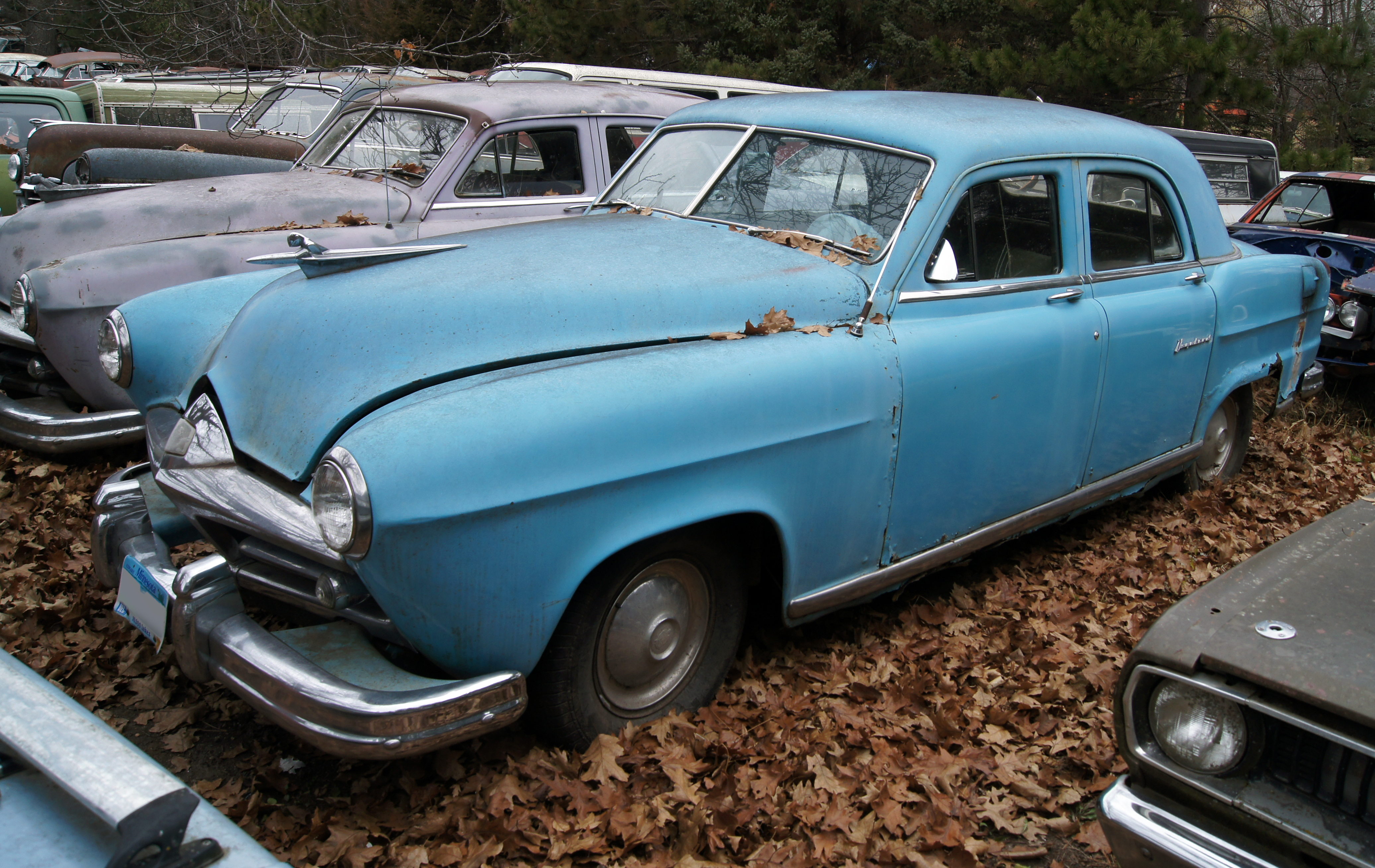 Front 3/4 view of a 1951 Frazer Vagabond, perhaps the world's first hatchback. All depends on your definition of hatchback. Behind is a regular 1951 Frazer.